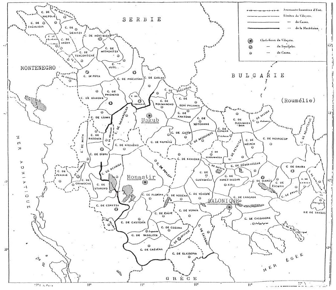 Kaaza districts late Ottoman empire